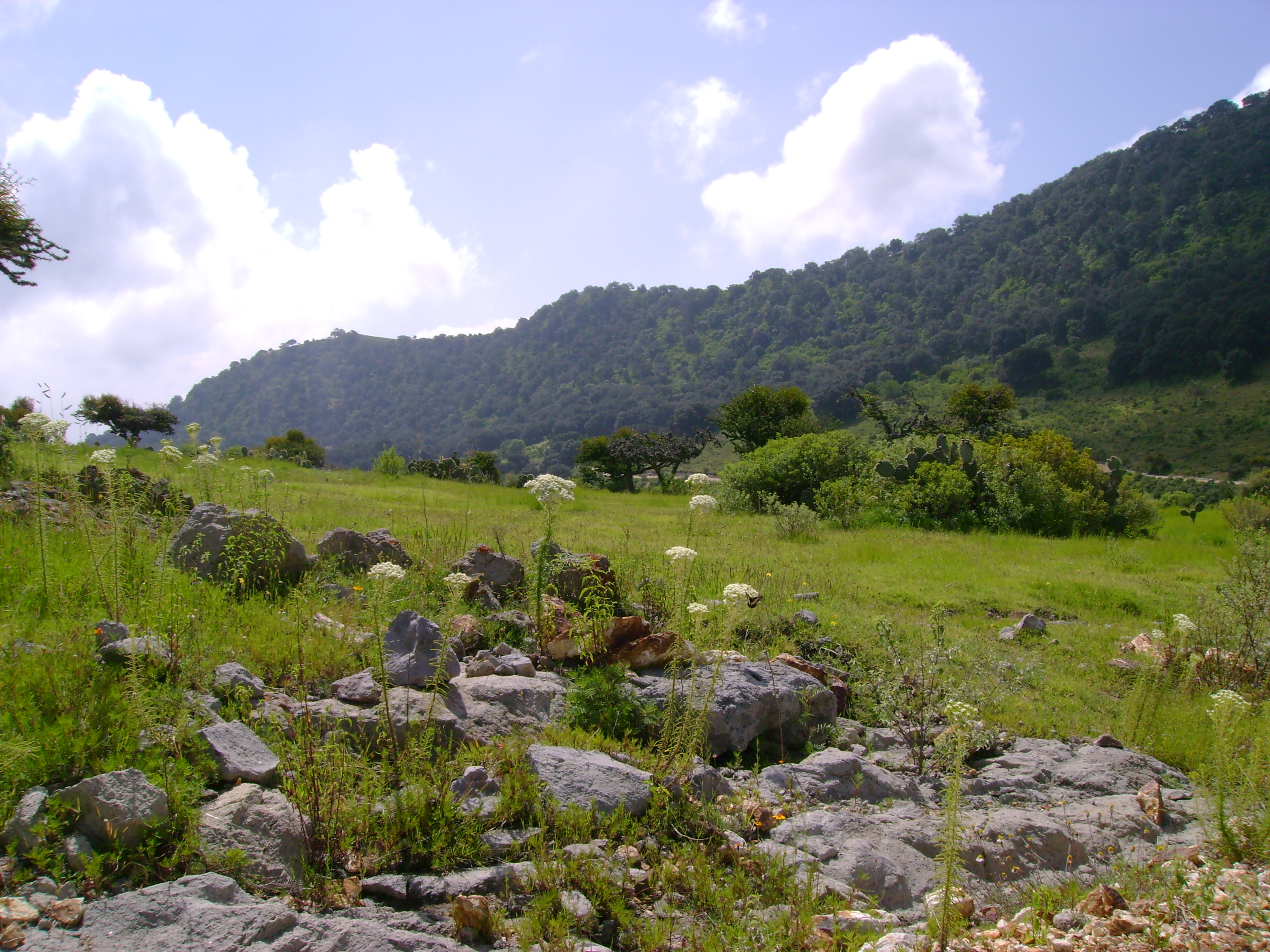 Park view of the natural countryside, in the Municipality of Querétaro, México.